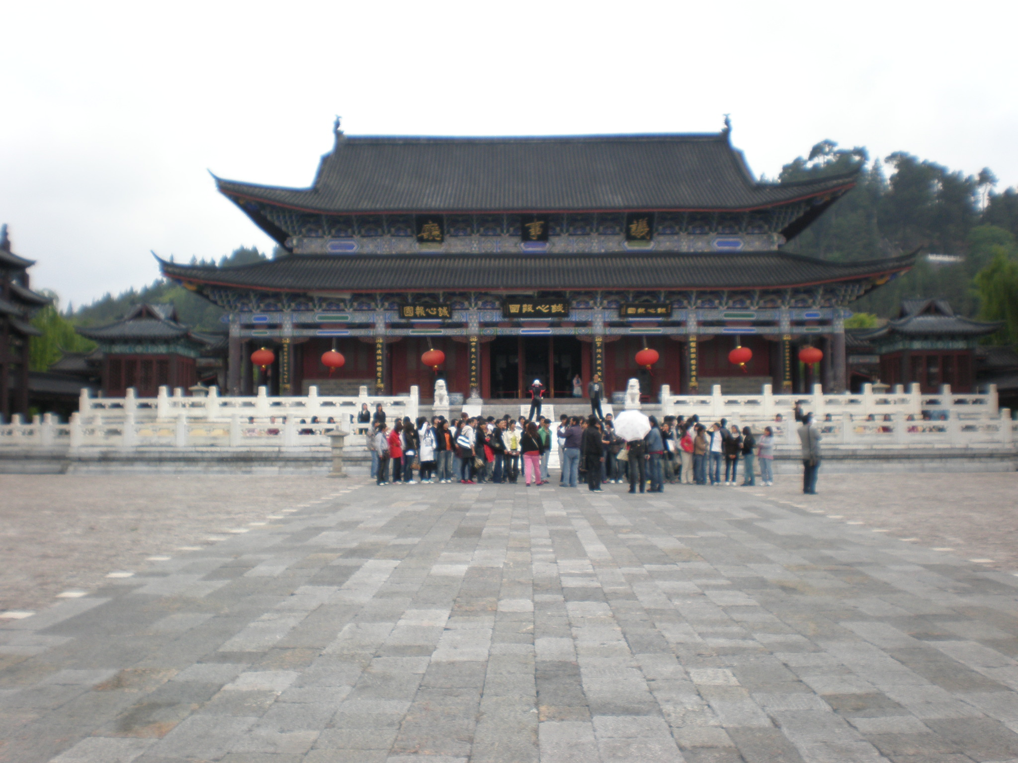 The main courtyard of the Mu Mansion in the Old Town of Lijiang, Yunnan.